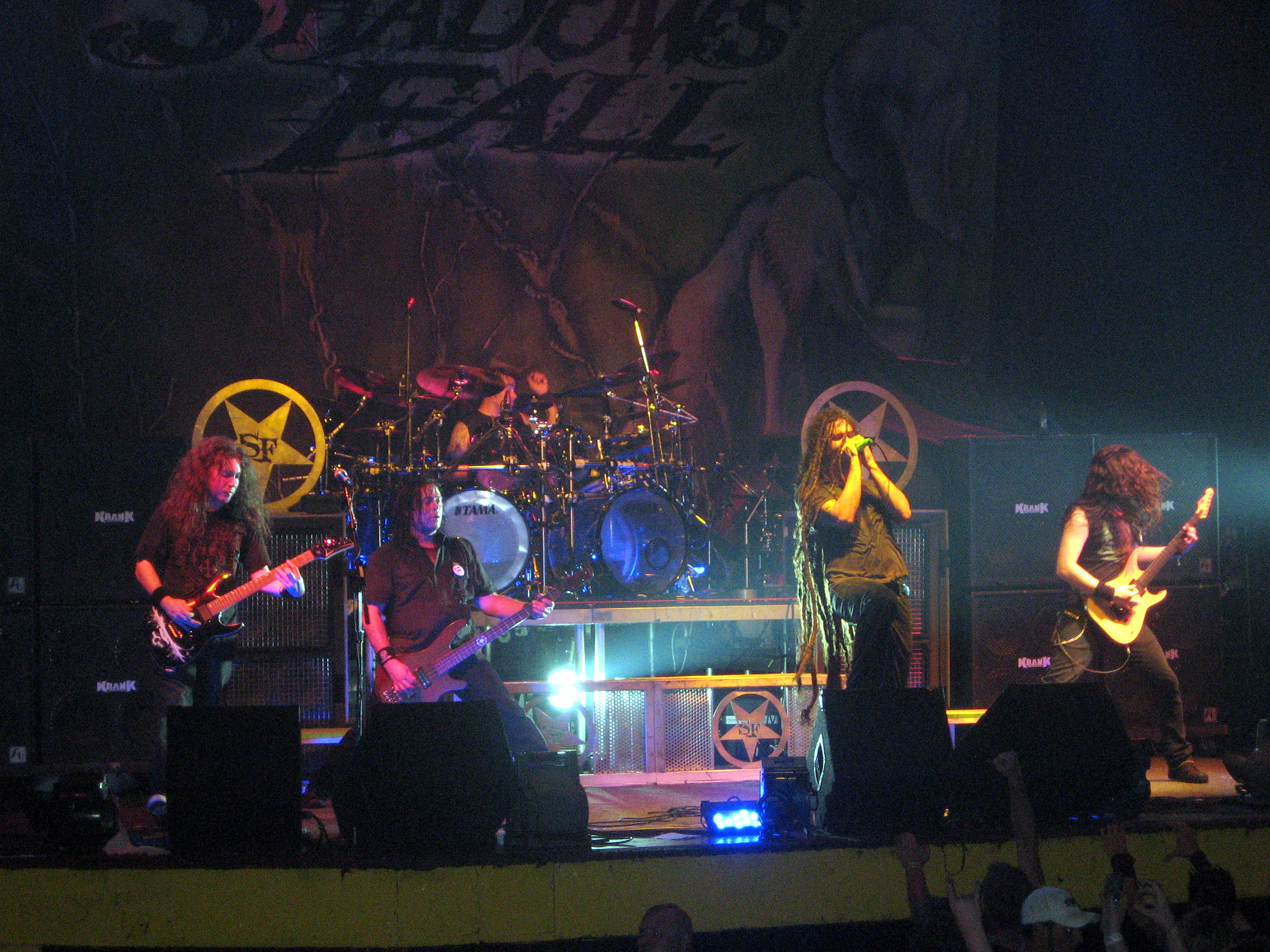 Shadows Fall live in Detroit, 10-6-2007